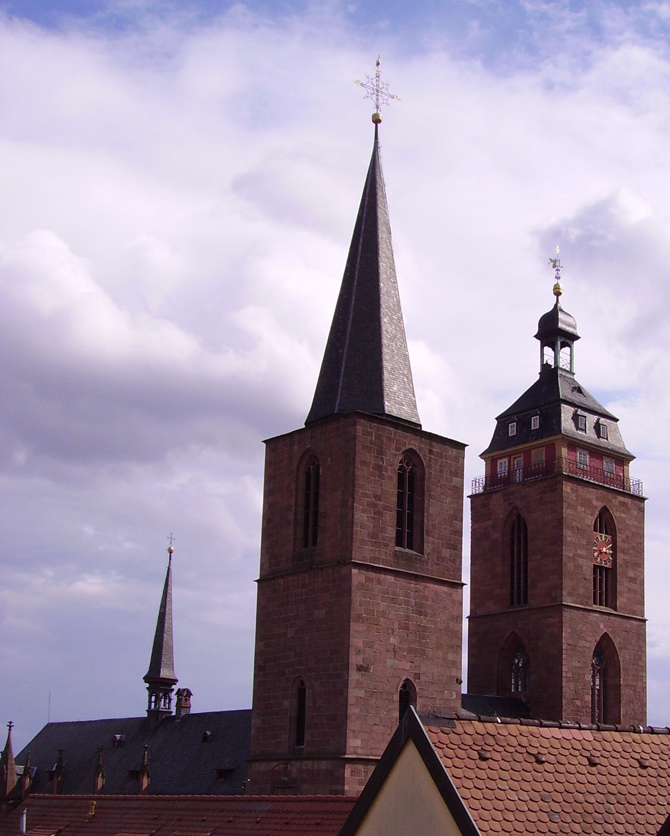 view of Neustadt an der Weinstraße, Germany